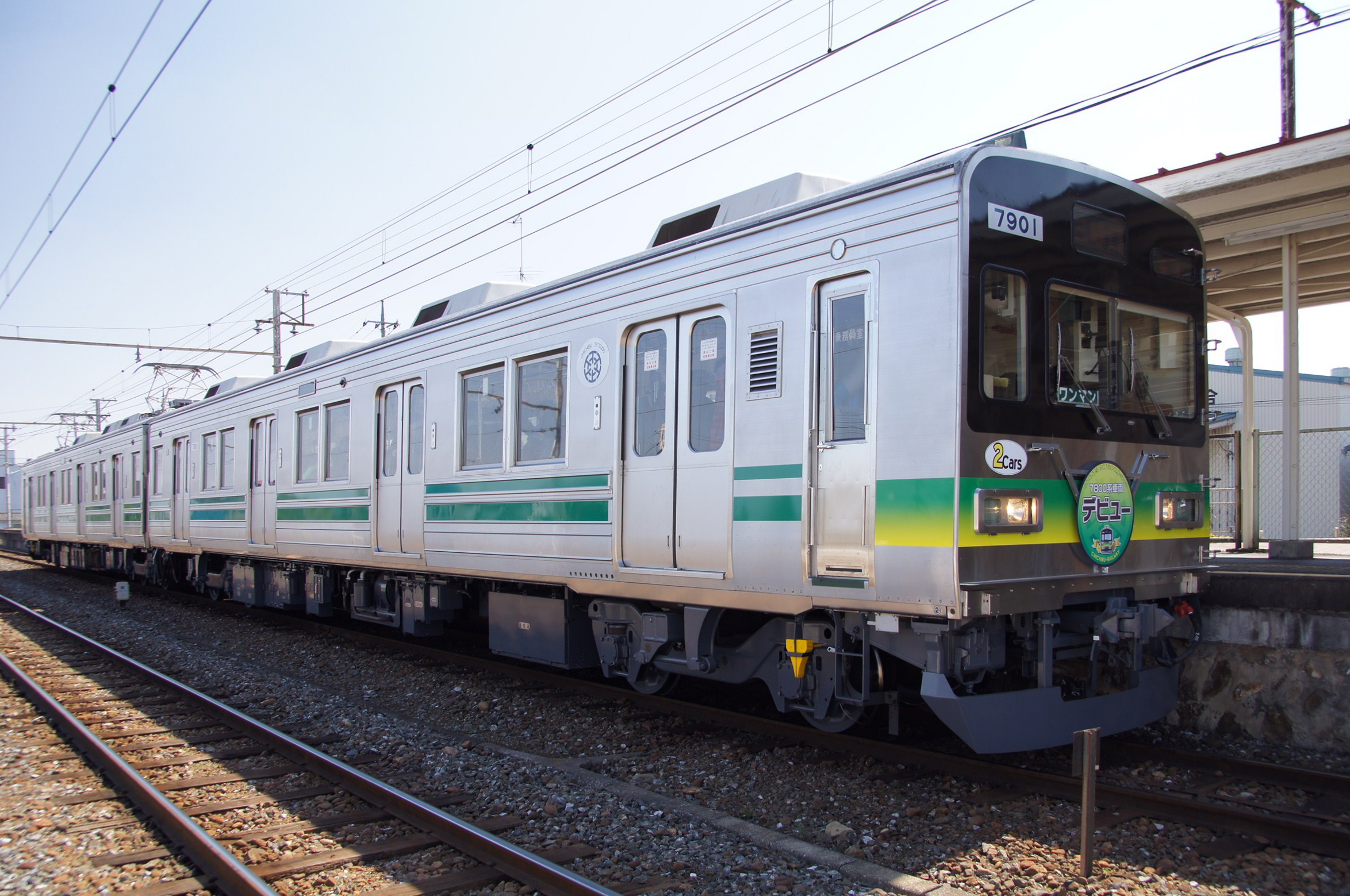 Chichibu Railway 7800 series 2-car EMU set 7801 at Omaeda Station on the Chichibu Main Line